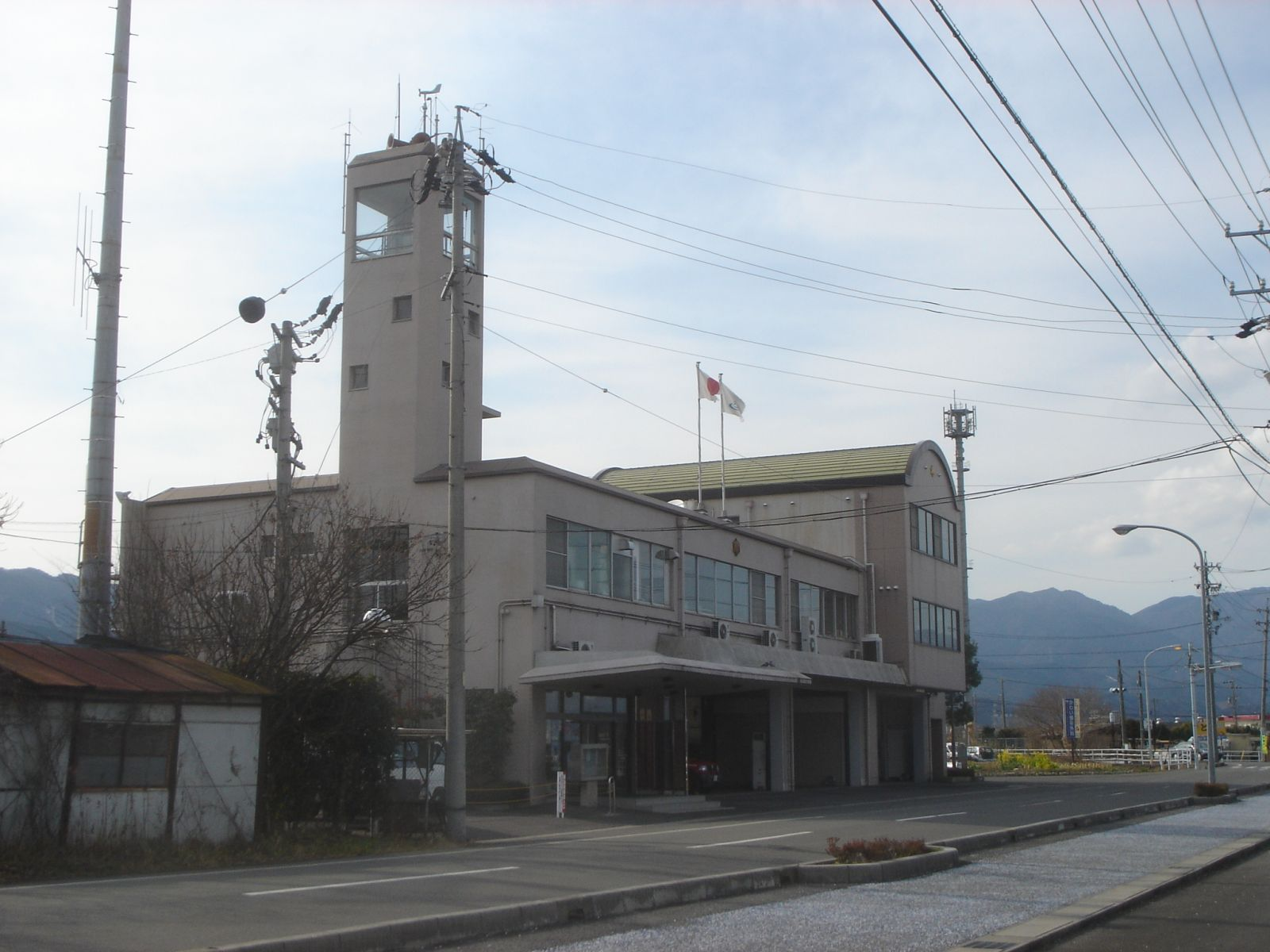 Kaizu City Fire station in Kaizu city(海津市消防署),Kaizu,Gifu,Japan(岐阜県海津市福岡町)で撮影。